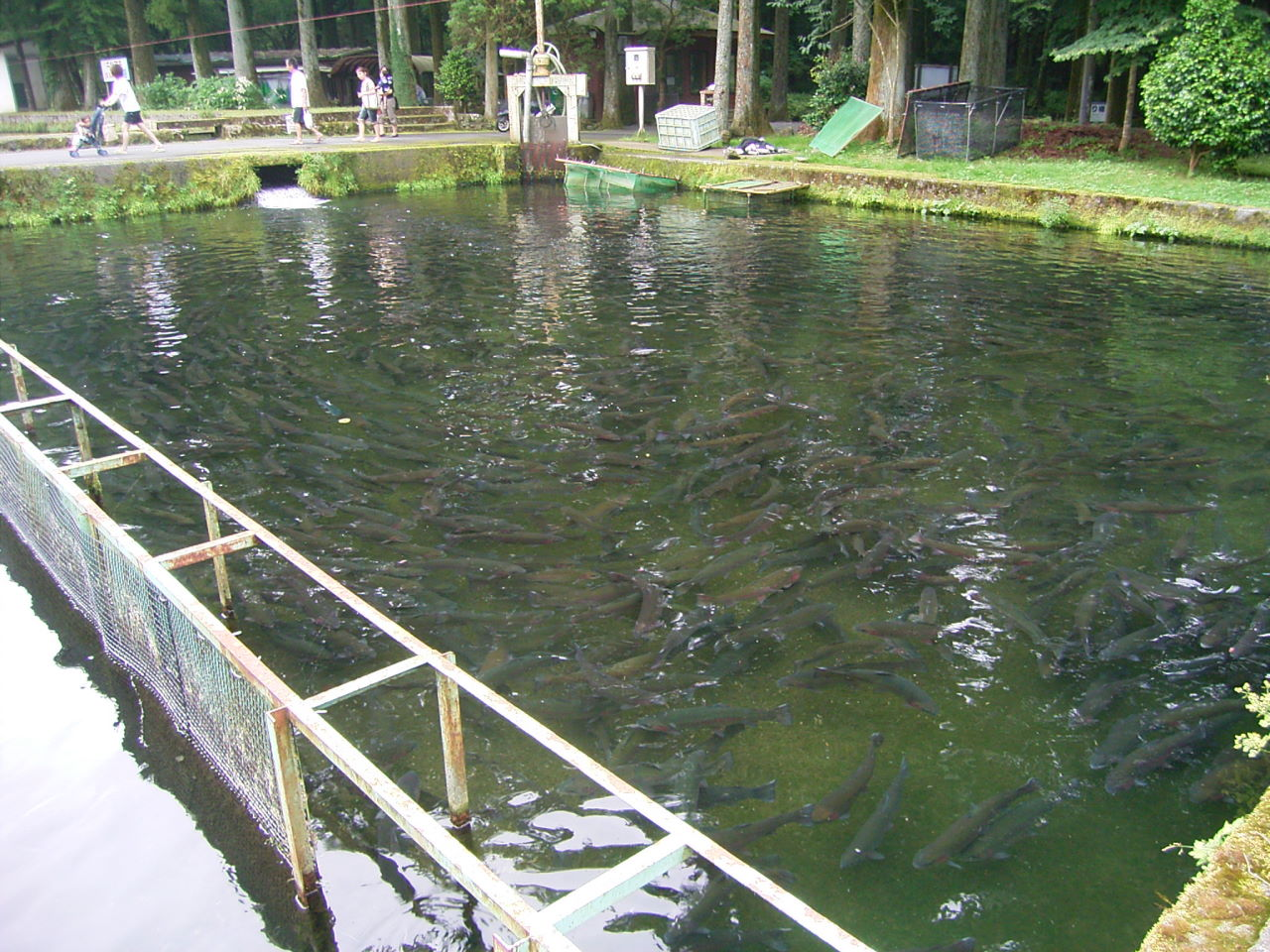 Fuji trout growing field in Fujinomiya-city Shizuoka Japan